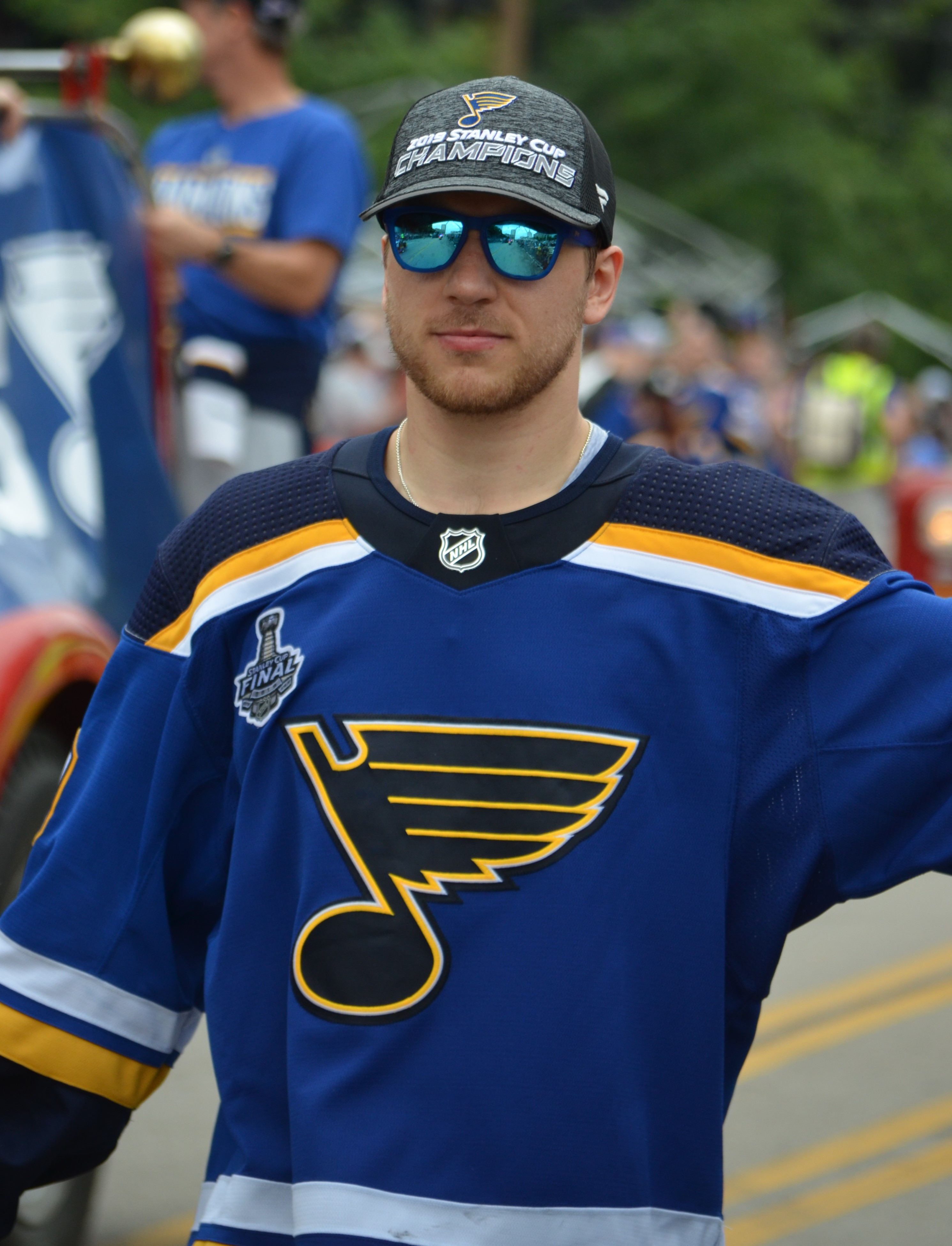 Brayden Schenn during the 2019 St Louis Blues Stanley Cup Parade